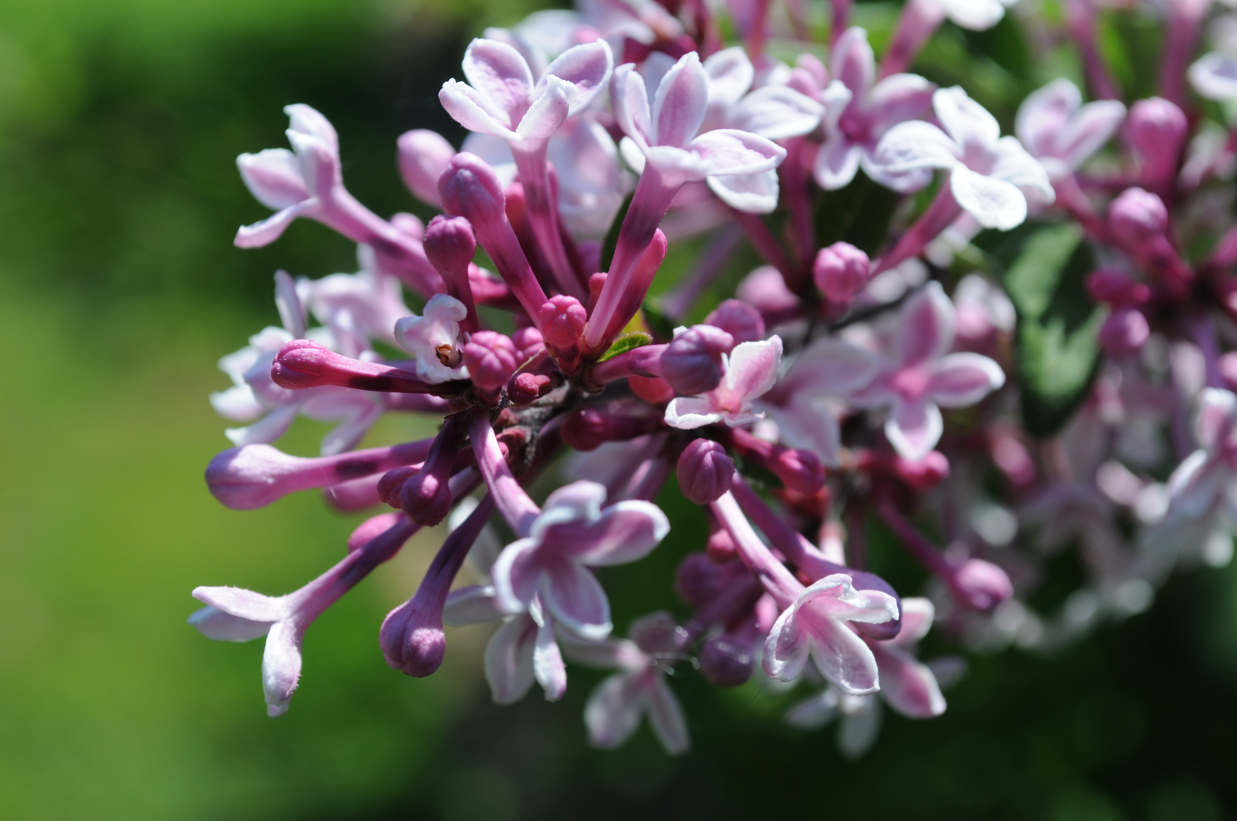 Close macro shot on small pink flowers of a Syringa pubescens subsp. microphylla 'Superba' at Hulda Klager Lilac Gardens in Woodland, Washington. Some buds are closed, some are open, and some are partially open.